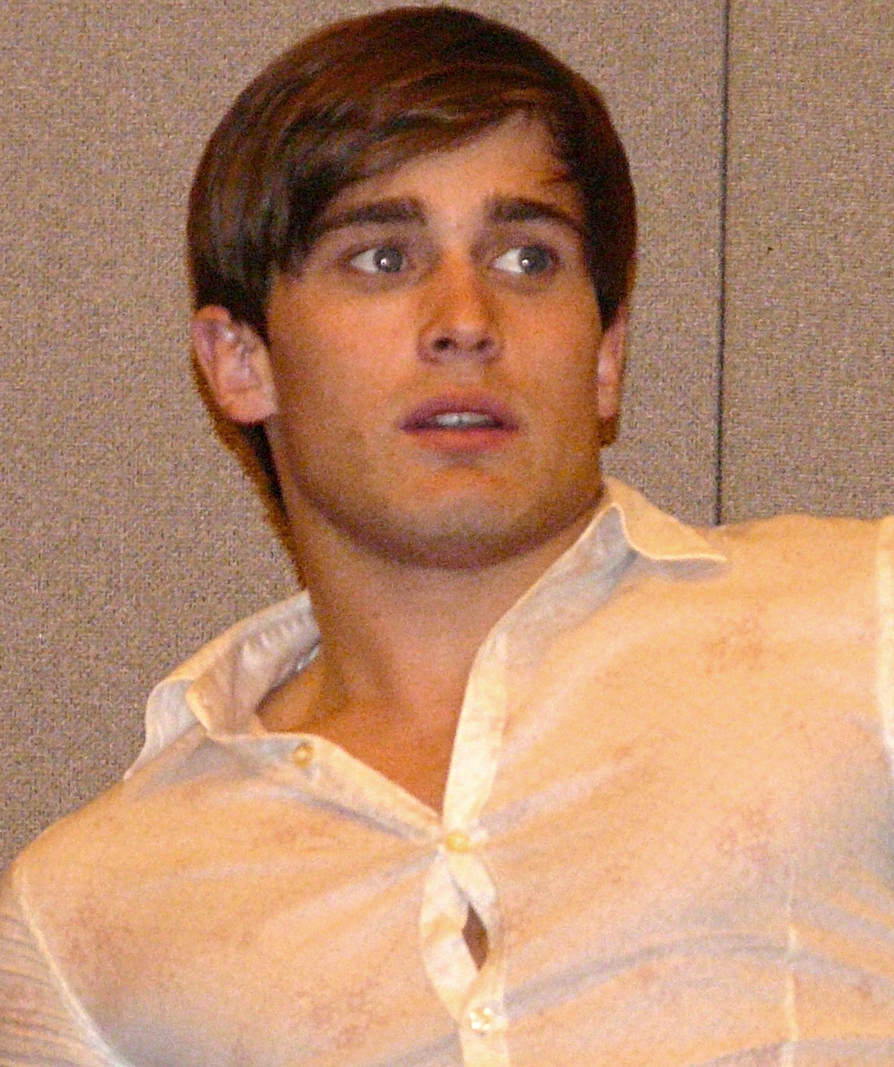 A picture of Christian Cooke